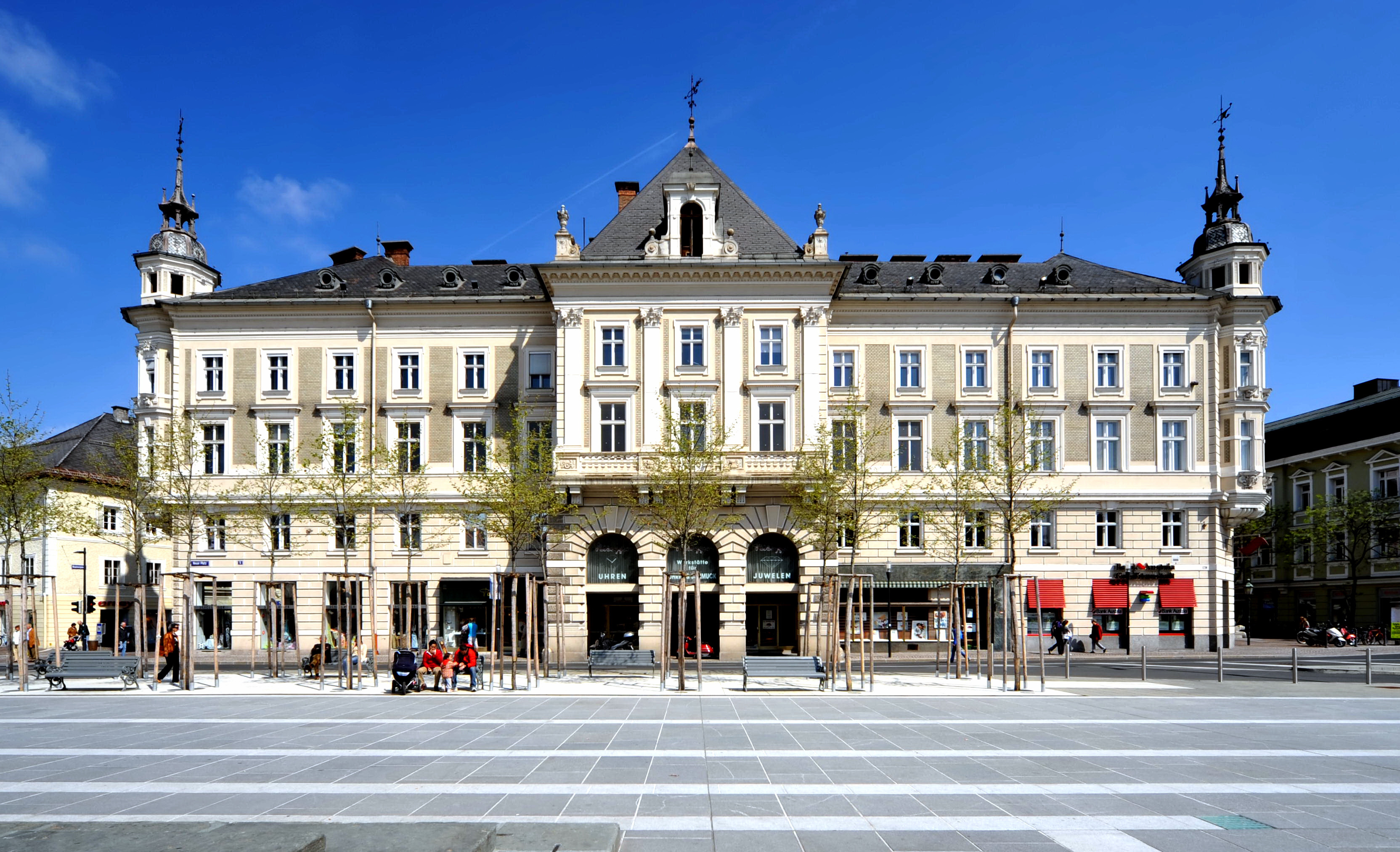 Rainerhof (setup 1885-1887 by Friedrich Schachner) on Neuer Platz #6, inner city, statutary city Klagenfurt, Carinthia, Austria, EU